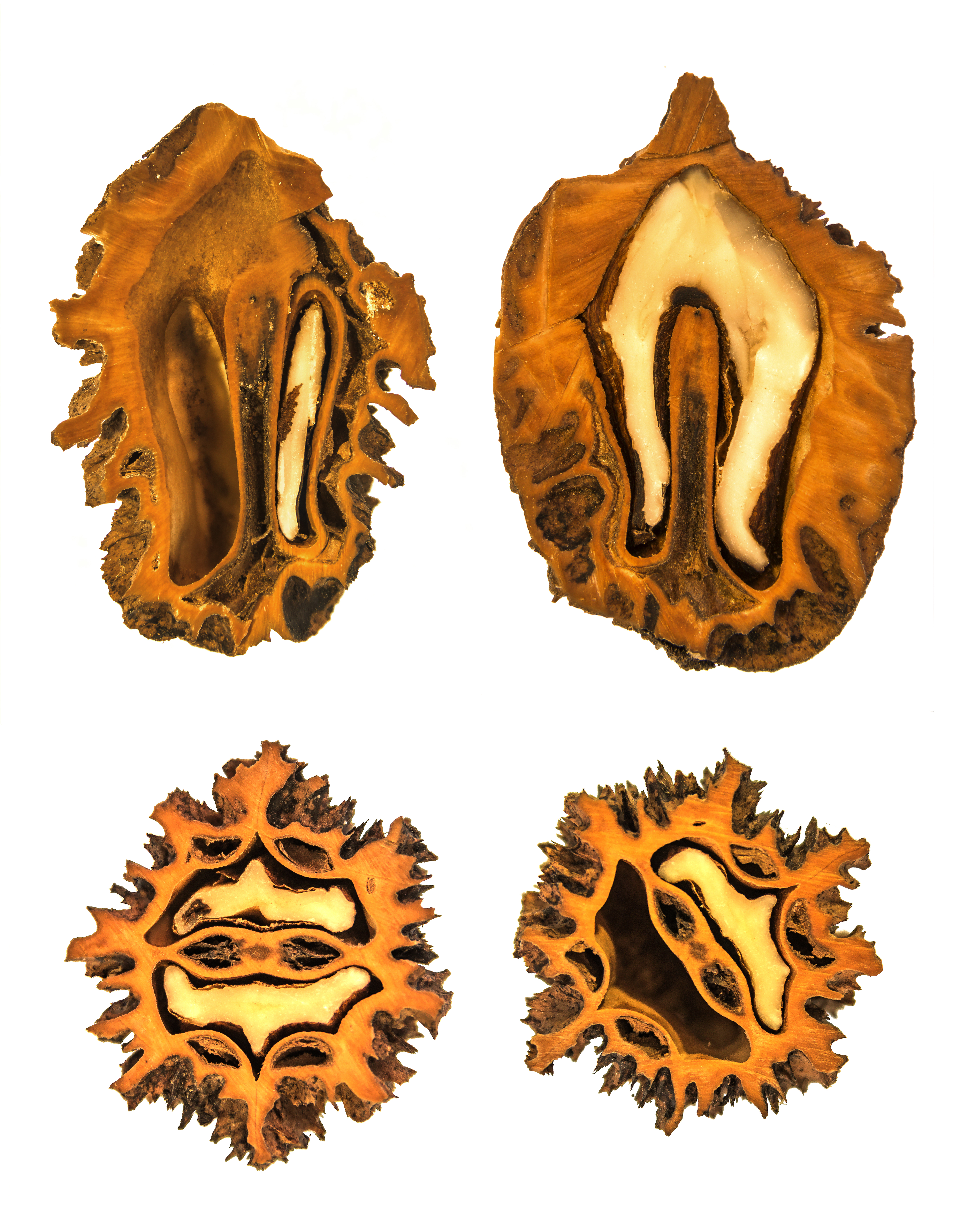 The fruit of the Manchurian walnut (lat. Júglans mandshúrica) at the final stage of development. In the section, the internal structure.